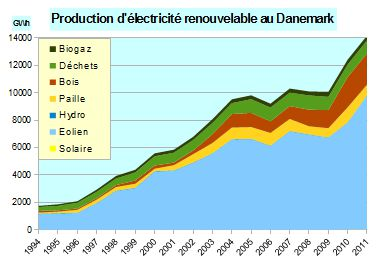 Denmark's renewable electricity generation, 1994-2011 data source : Danish Energy Agency